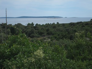 Premuda - an island in Croatian Adriatic, as seen from the island of Ilovik / Premuda - otok zadarskog arhipelaga, viđena s Ilovika.